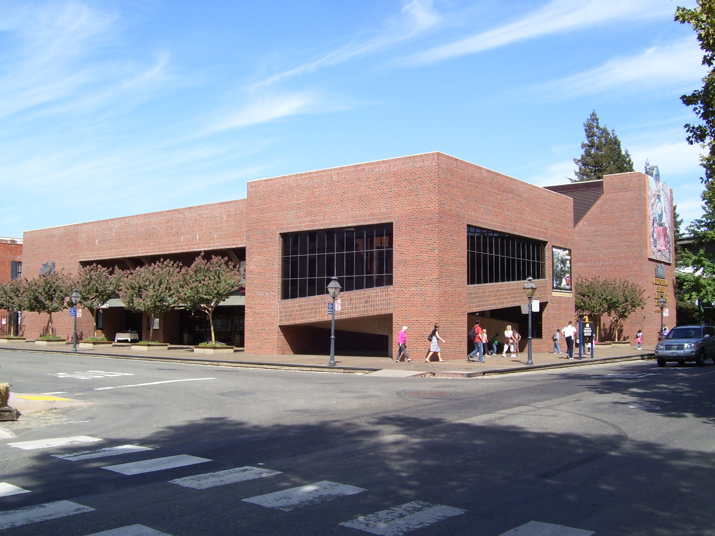 This is my 2008 photo of the California State Railroad Museum.